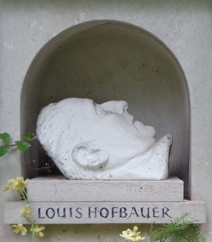 Bust of Louis Hofbauer from the grave of the artists Louis Hofbauer and Karl Hosaeus. Grave location: Salzburger Kommunalfriedhof, Gruppe 58, Reihe 1, Ordnung 1, Grabnummer: 021.